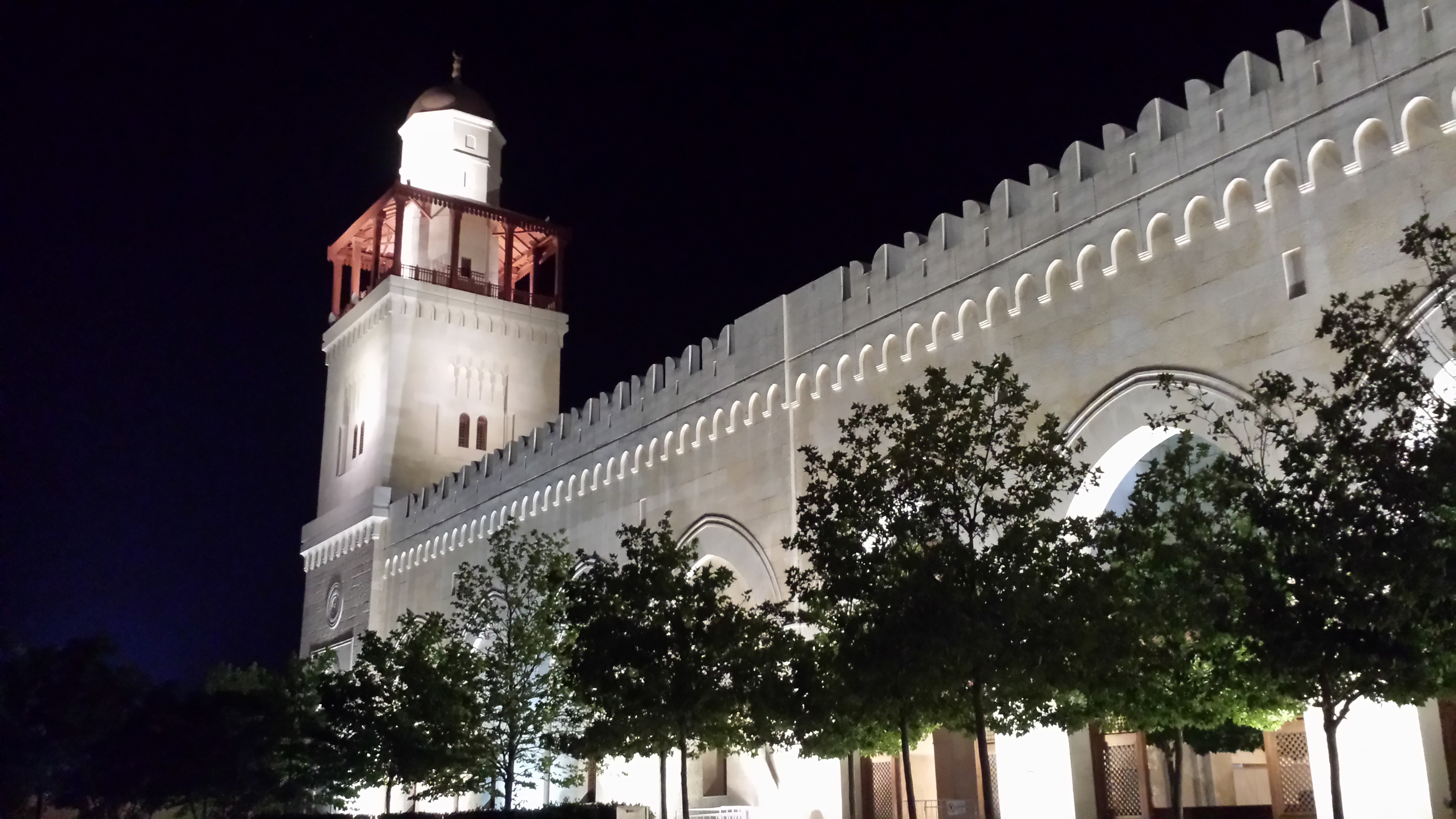 King Hussain Mosque, Amman